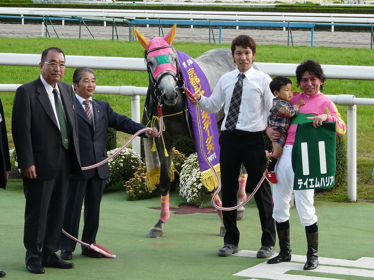 TM-Harrier20111112